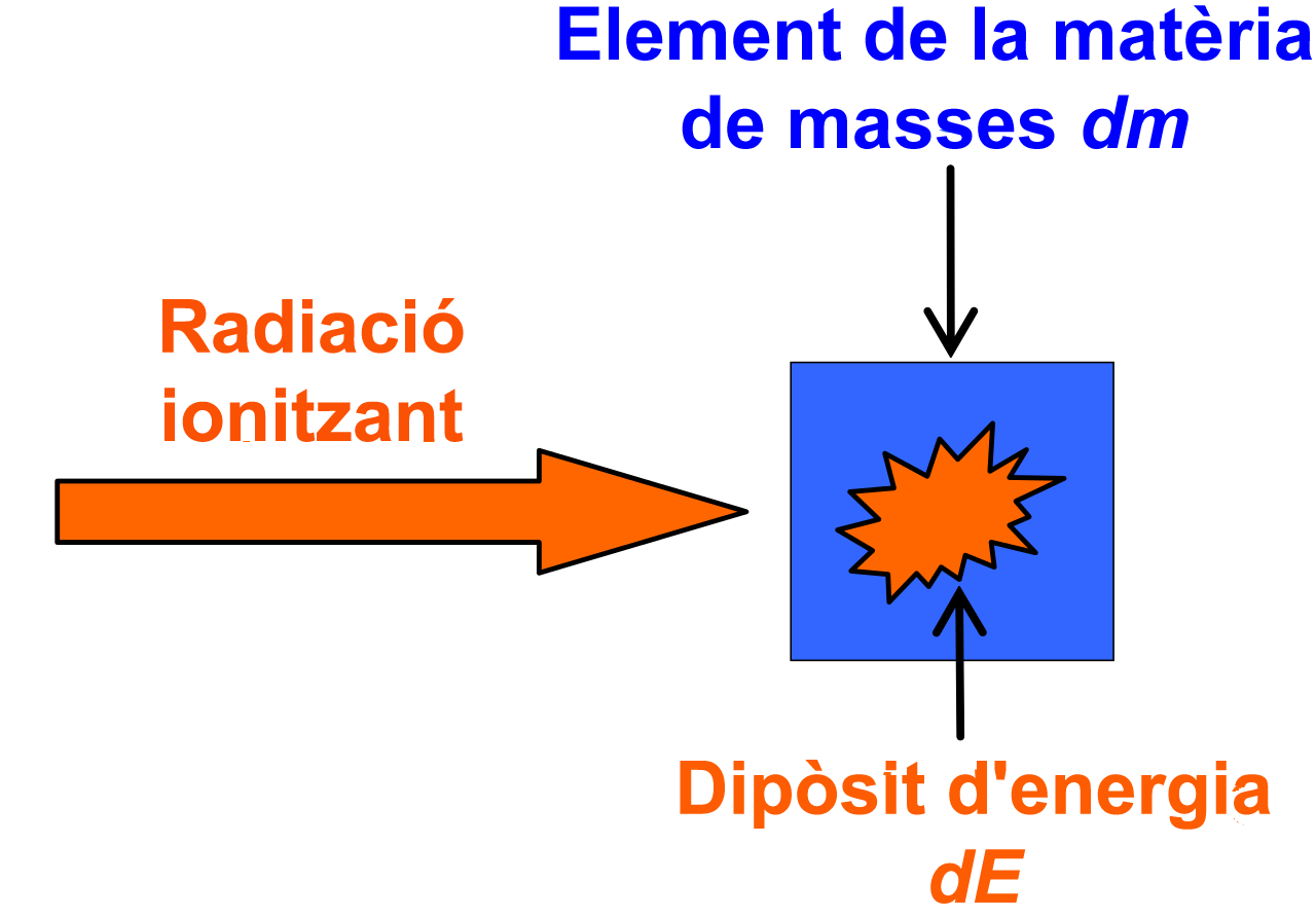 Sketch for helping define the radioactive dose